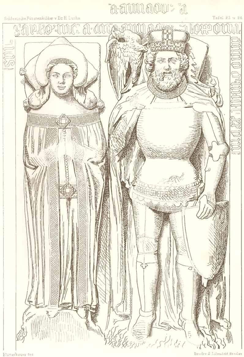 Tomb of duke Bolko III of Opole and his wife Anna